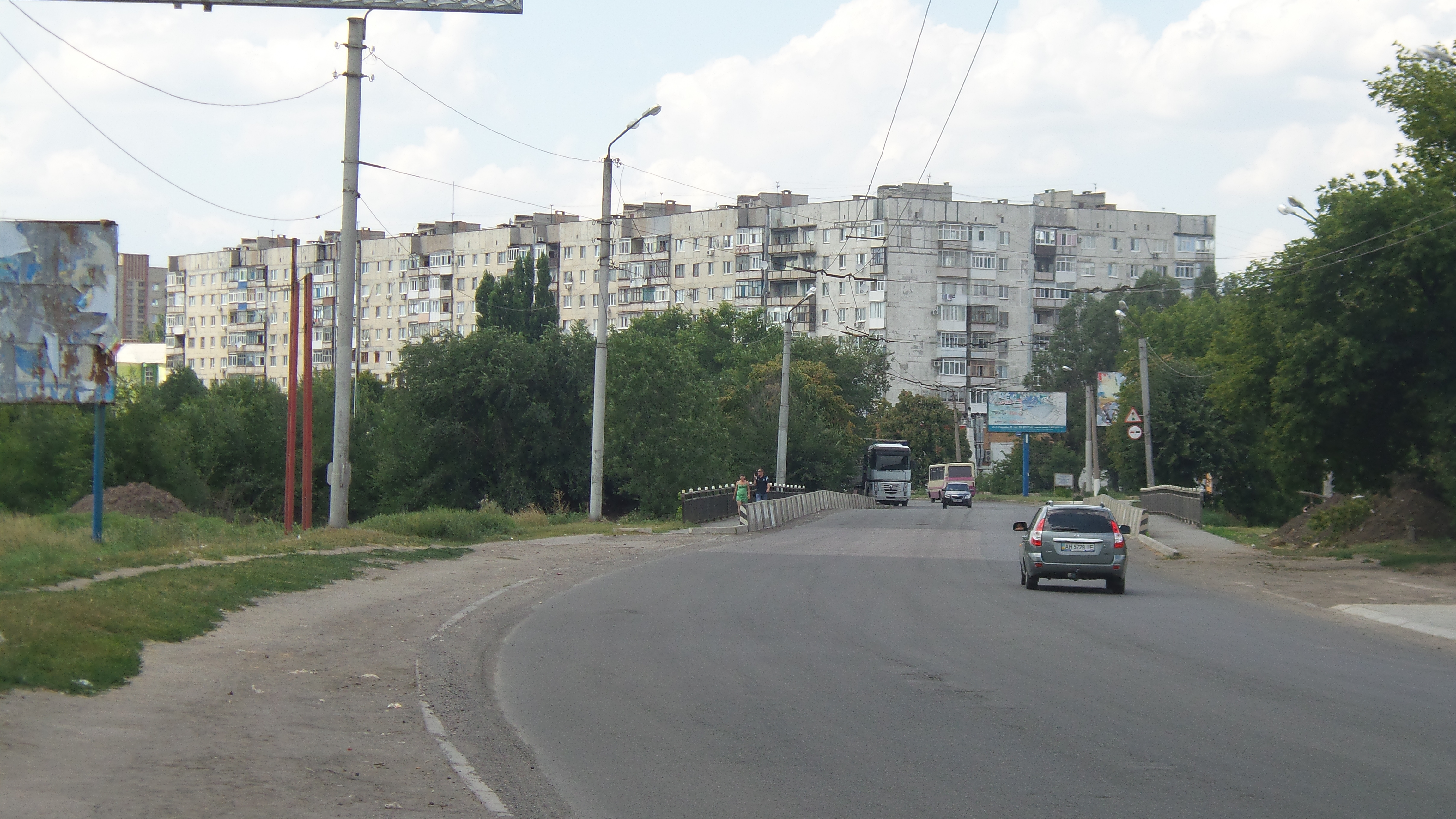 Artemivsk, Donetsk region.